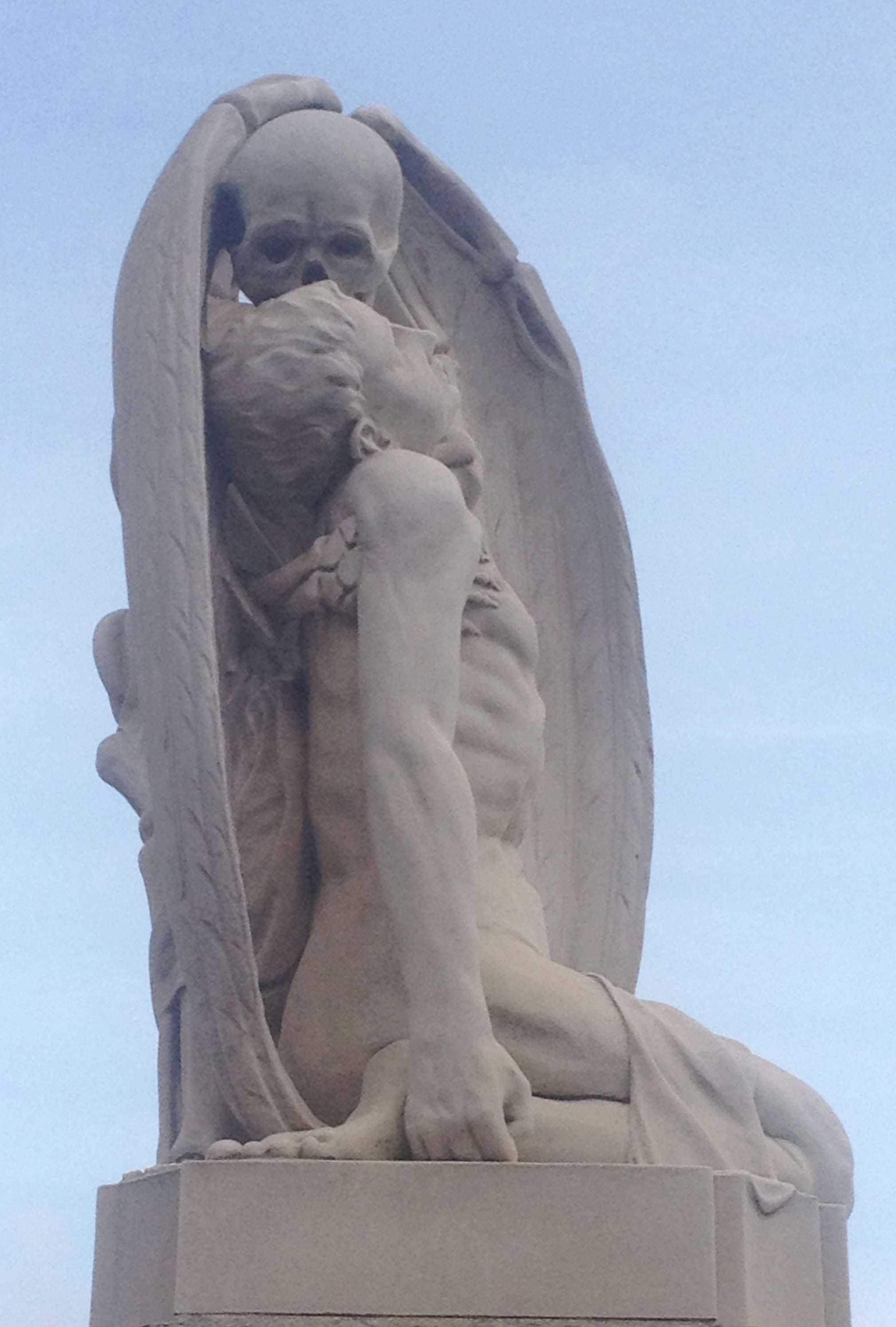 Kiss of Death (Poblenou Cemetery)